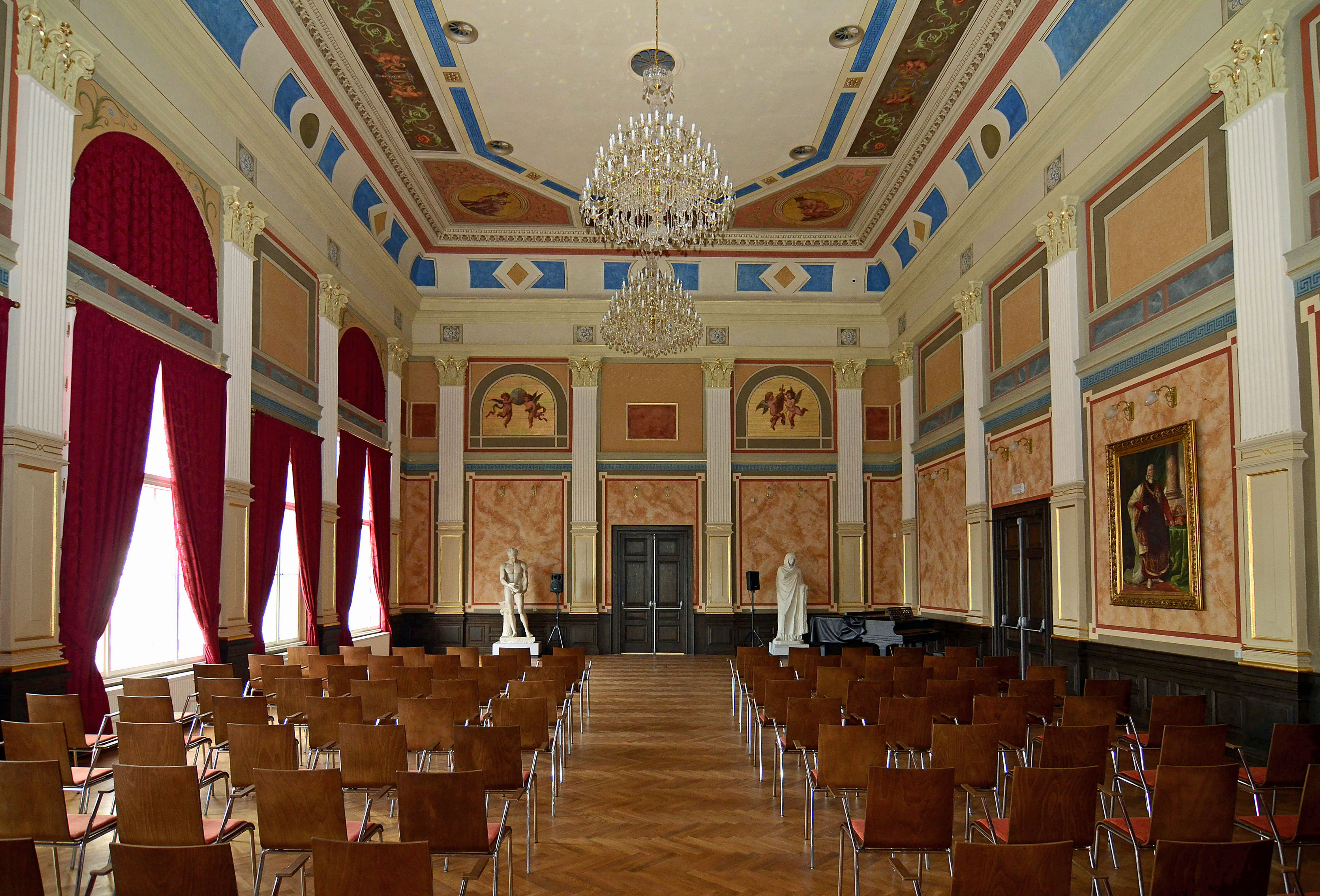 Imperial Hall